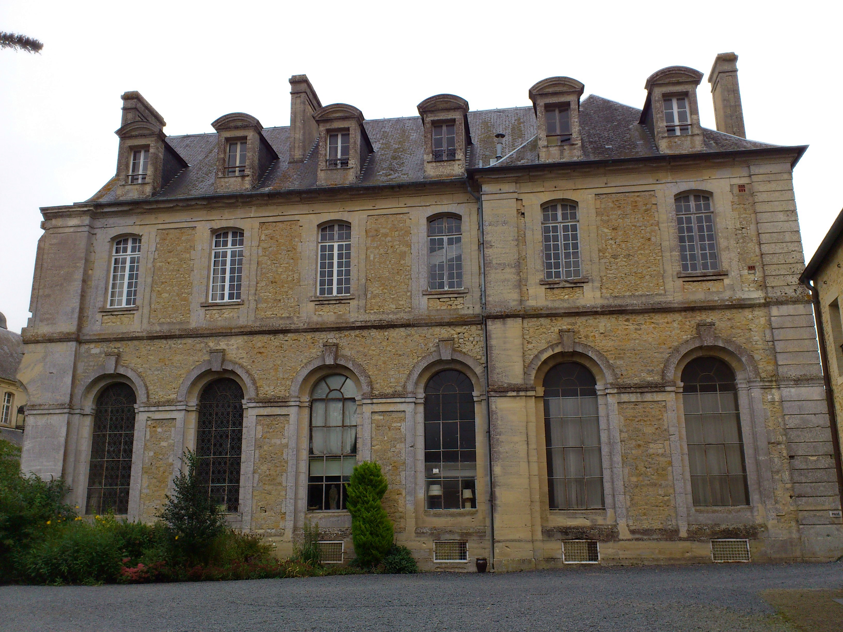 Mondaye Abbey in France.